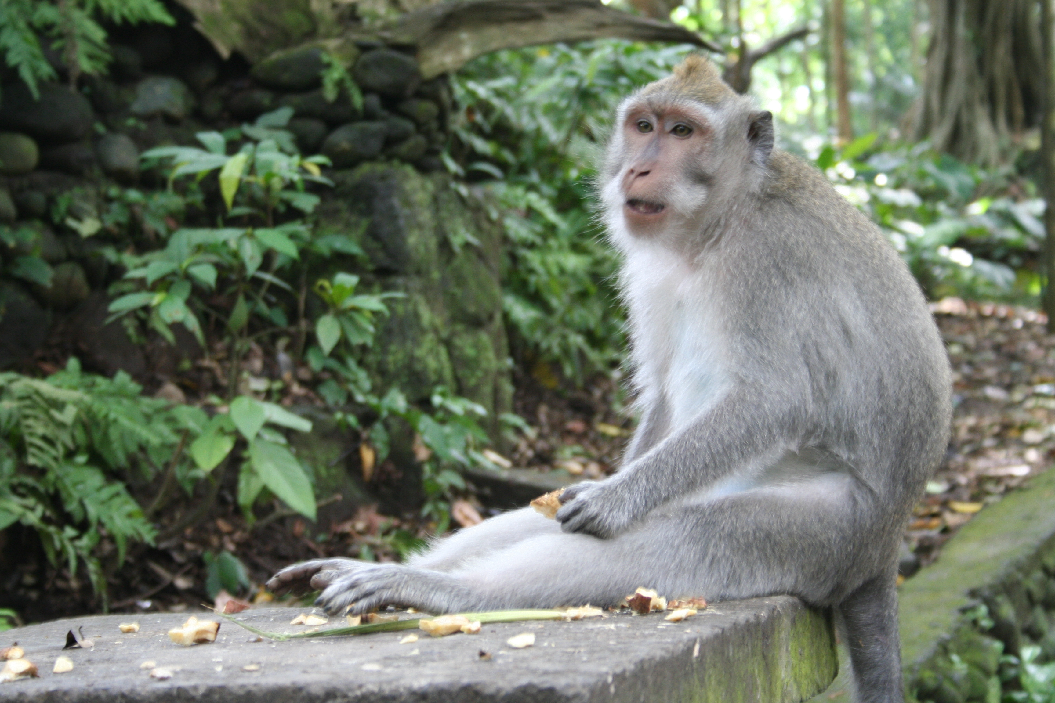 A monkey at Ubud Monkey Forest in Bali, Indonesia